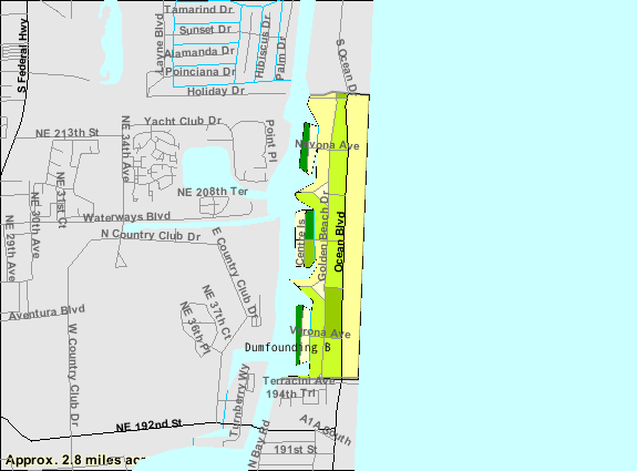 map of town of Golden Beach, Florida showing boundaries